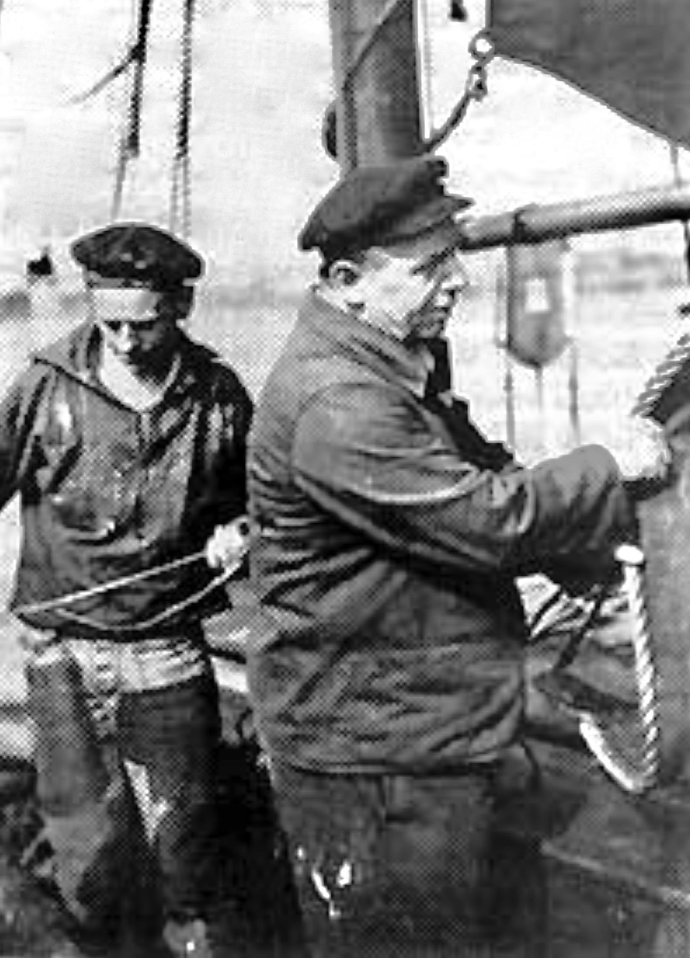 Dieter Luserke (1911–2005) with his father Martin Luserke (1880–1968) aboard the sailship Krake ZK 14. The Krake was used to follow ancient Viking routes and as a floating poet's workshop. Martin Luserke's readings and tale-telling was attended by mostly younger people in harbours of the North Sea and the Baltic Sea. Several guests joined in for free trip sections but had to work aboard.